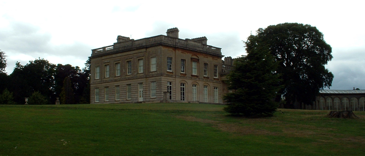 Blaise Castle house, Bristol